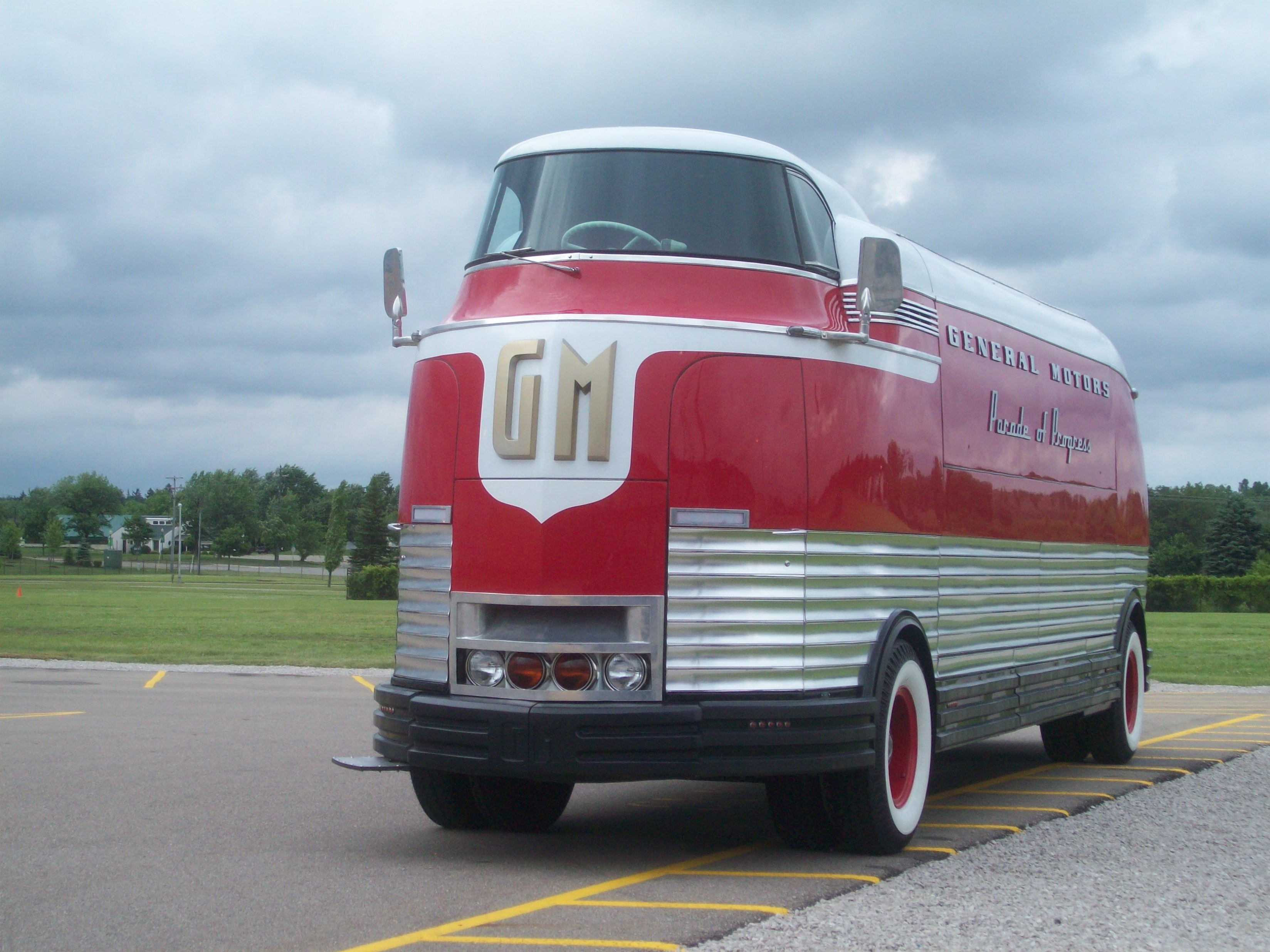 GM FuturLiner front view at Flint, Michigan, antique car show